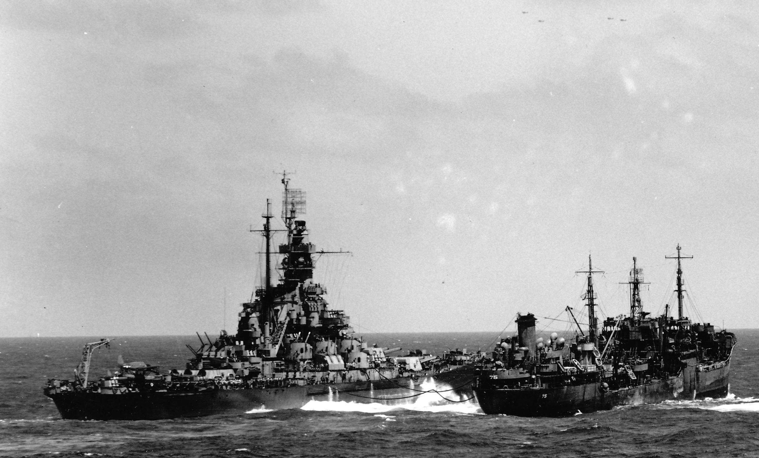 The U.S. Navy battleship USS Massachusetts (BB-59) refueling from the fleet oiler USS Saugatuck (AO-75) on 20 April 1945. Note the four airplanes overhead.